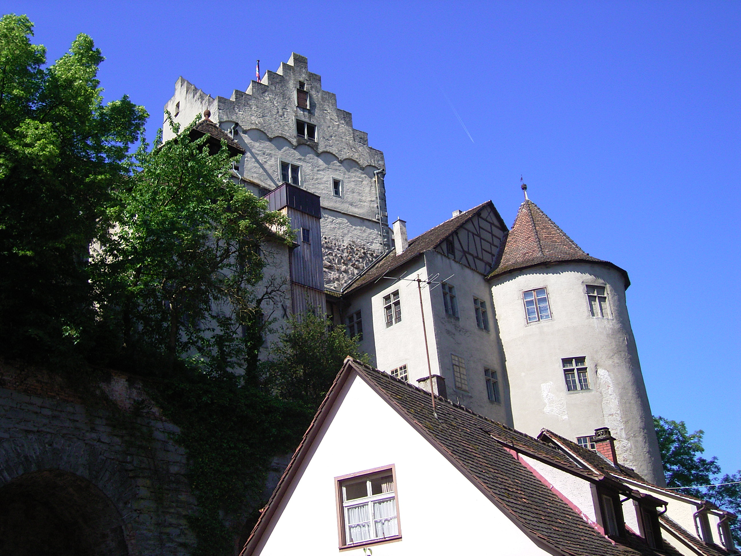 The Castle of Meersburg at the closest View